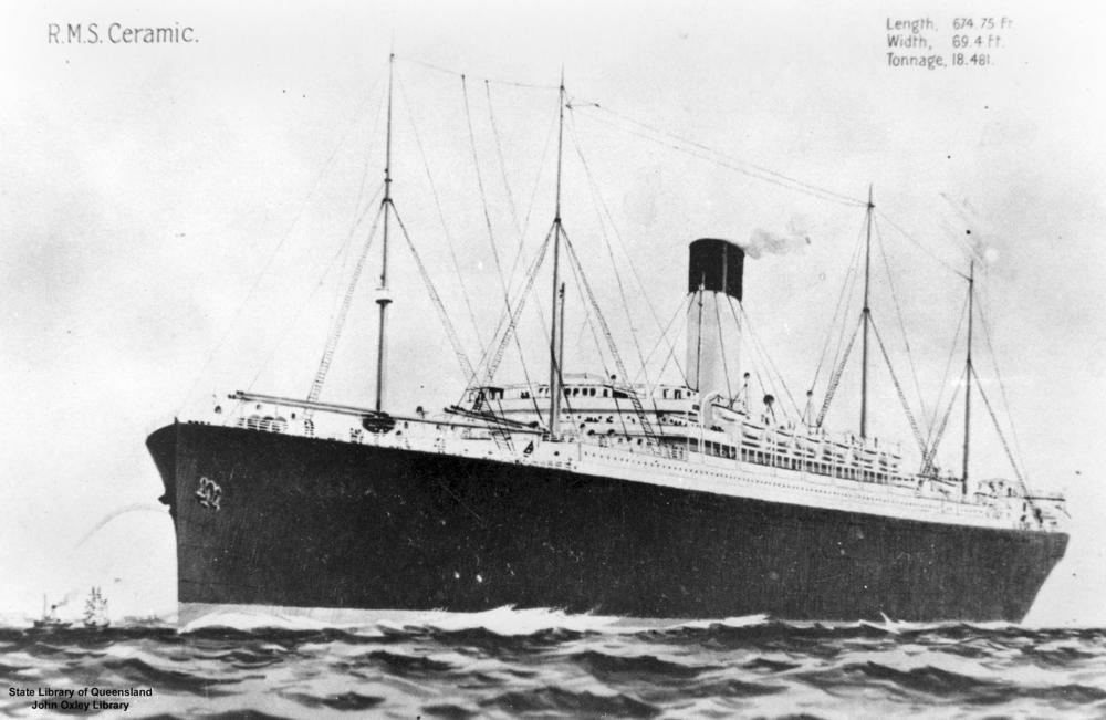 Ceramic (ship) The R.M.S. Ceramic. Length, 674.75 ft., width 69.4 ft., tonnage 18481. Copied from a postcard, the back of which is signed by members of the 26th battalion.